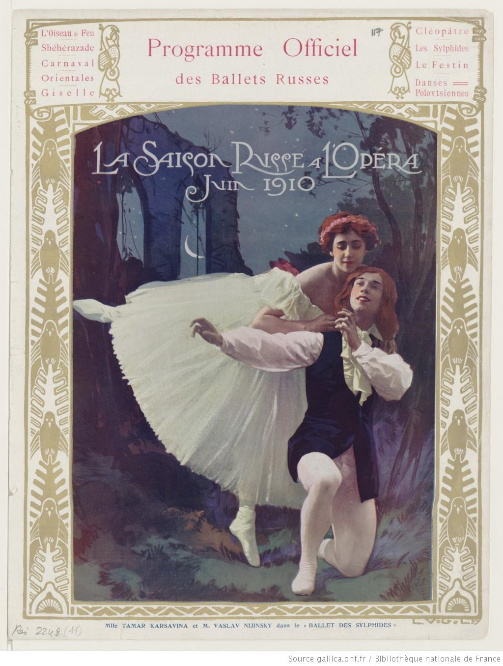 Ballets Russes Programme - 1910